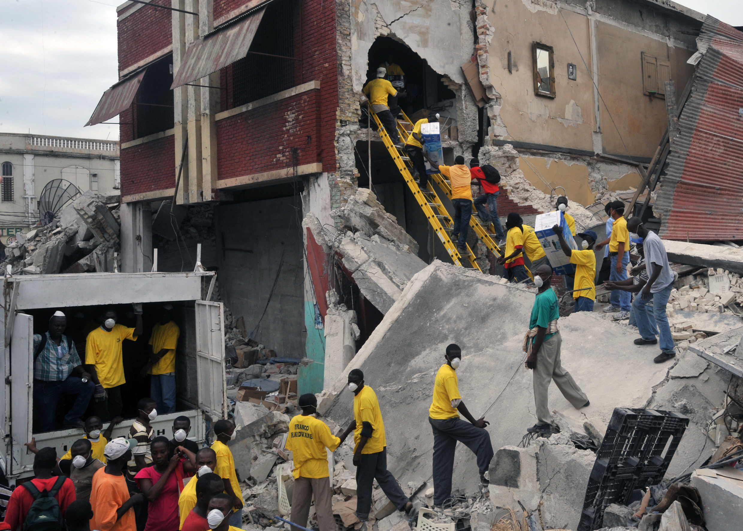 After the 2010 Haiti Earthquake, people in the Port-au-Prince neighborhood of Bel-Air attempt to collect goods left in damaged buildings. (Similar image labeled "Workers unload a warehouse downtown Port au Prince.")